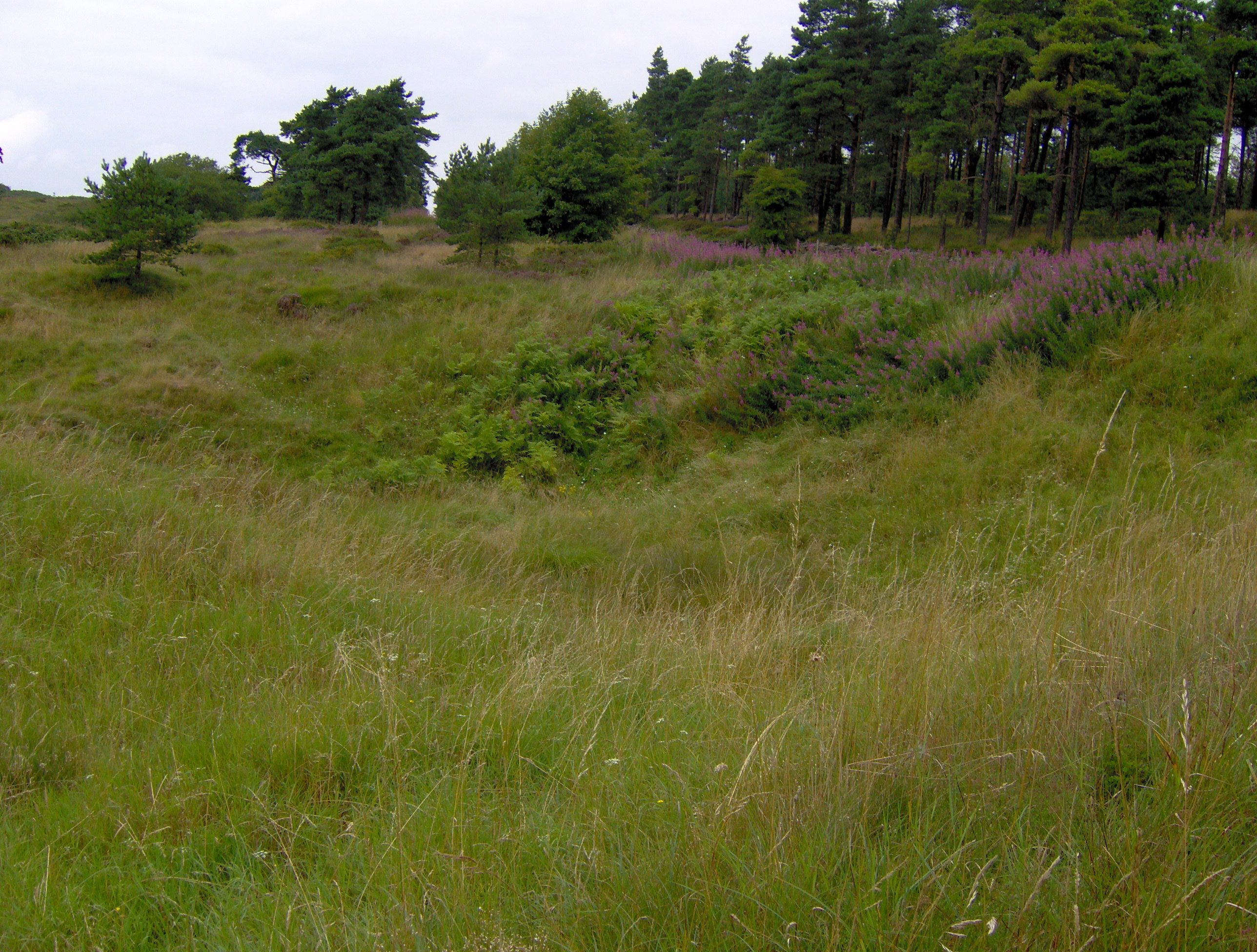 Priddy Mineries. Taken by Rod Ward 15th August 2006